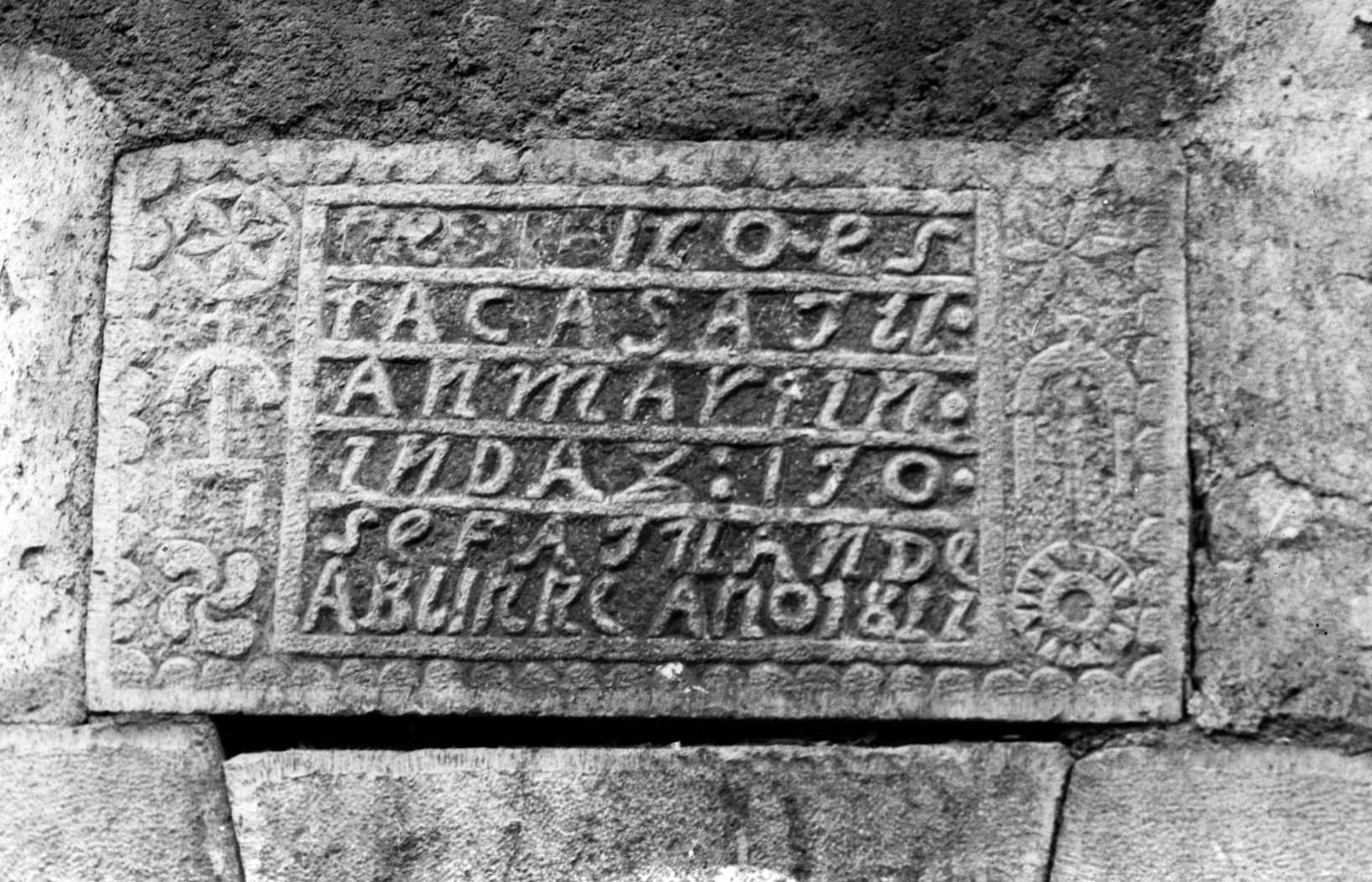 The ateburu (lintel stone) above the door to a Basque farmhouse in Aria